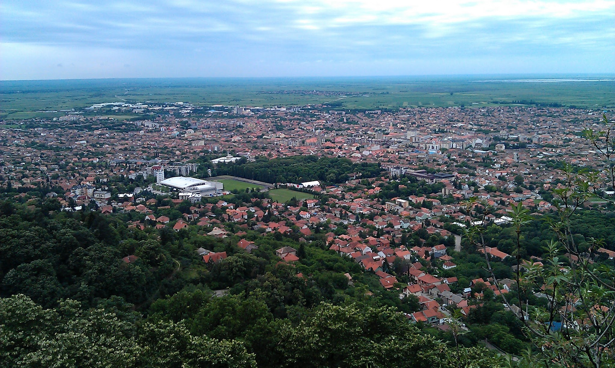 The town of Vršac, photographed from the top of the hill.